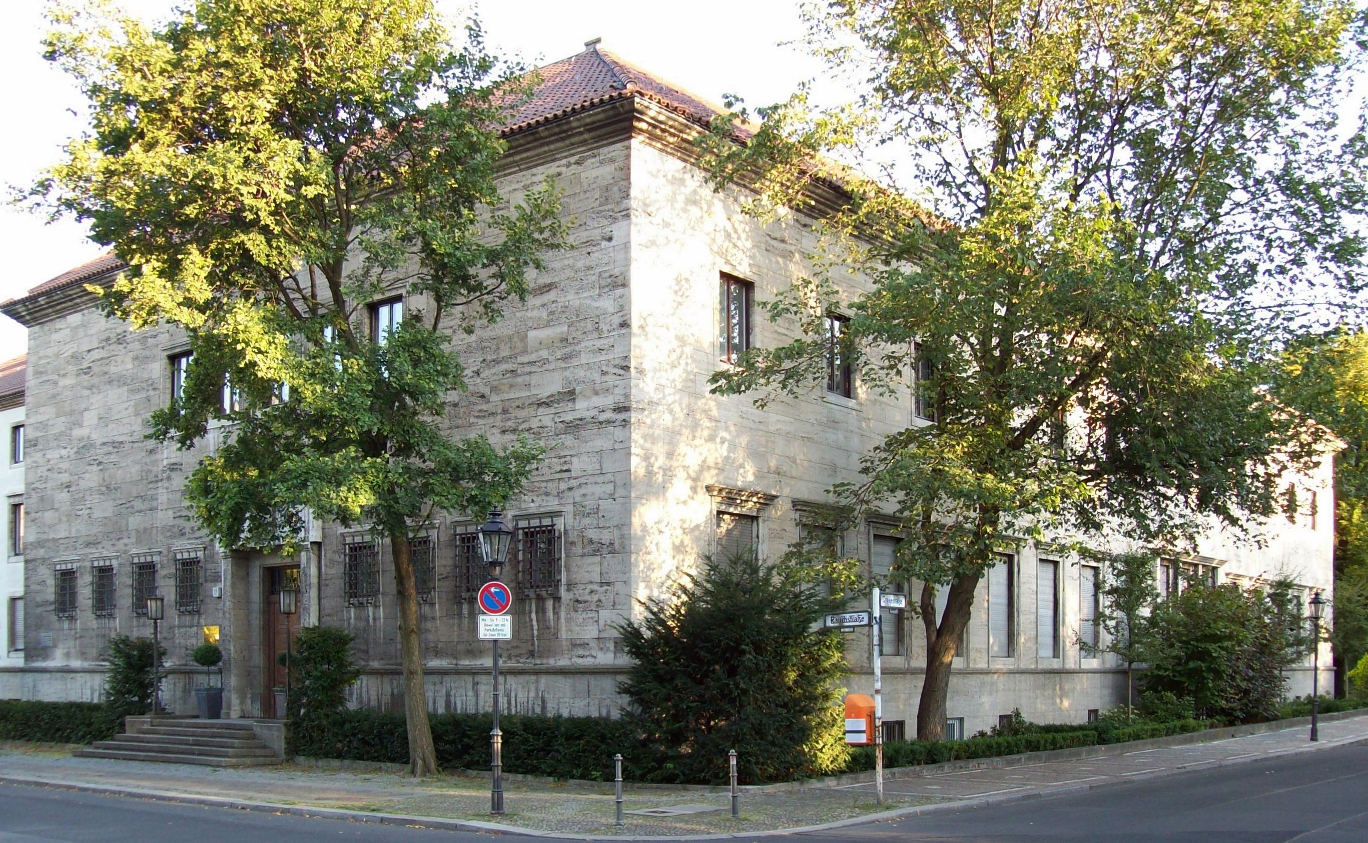 Diplomatic mission of Yugoslavia Berlin